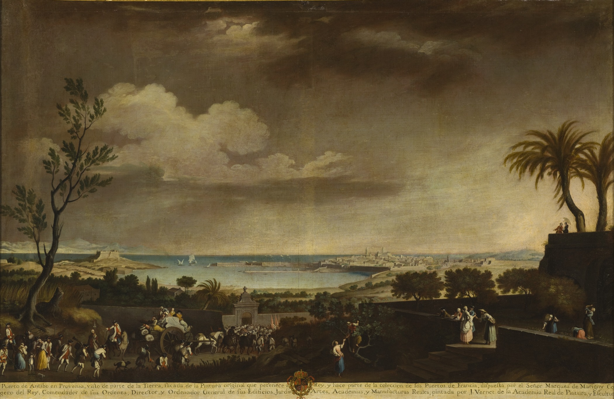 1771 Paintings Oil on canvas Framed: 39 1/2 x 60 3/4 in. (100.33 x 154.31 cm) Purchased with funds provided by the Bernard and Edith Lewin Collection of Mexican Art Deaccession Fund (M.2007.197.3) Latin American Art Currently on public view: Art of the Americas Building, floor 4